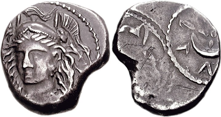 Italy,Etruria, Populonia. 3rd century BC. AR 20 Asses (8.39 g). Head of Menrva facing slightly left, wearing triple-crested Attic helmet; [X X flanking neck] ‘pupluna’ in Etruscan alphabet, star of four rays within crescent. Vecchi II 79.4 = Sambon, Les monnaies antiques de l’Itale, 65a = BMC p. 396, 1 (this coin); HN Italy 158; SNG France 24 (same dies); SNG Lloyd 8 (same dies); Basel 13 (same dies); McClean 133 (same dies); Hirsch 15 (same dies). Good VF, toned, double struck and a couple scratches under tone on reverse. Very rare. "A coin from the British Museum Duplicate